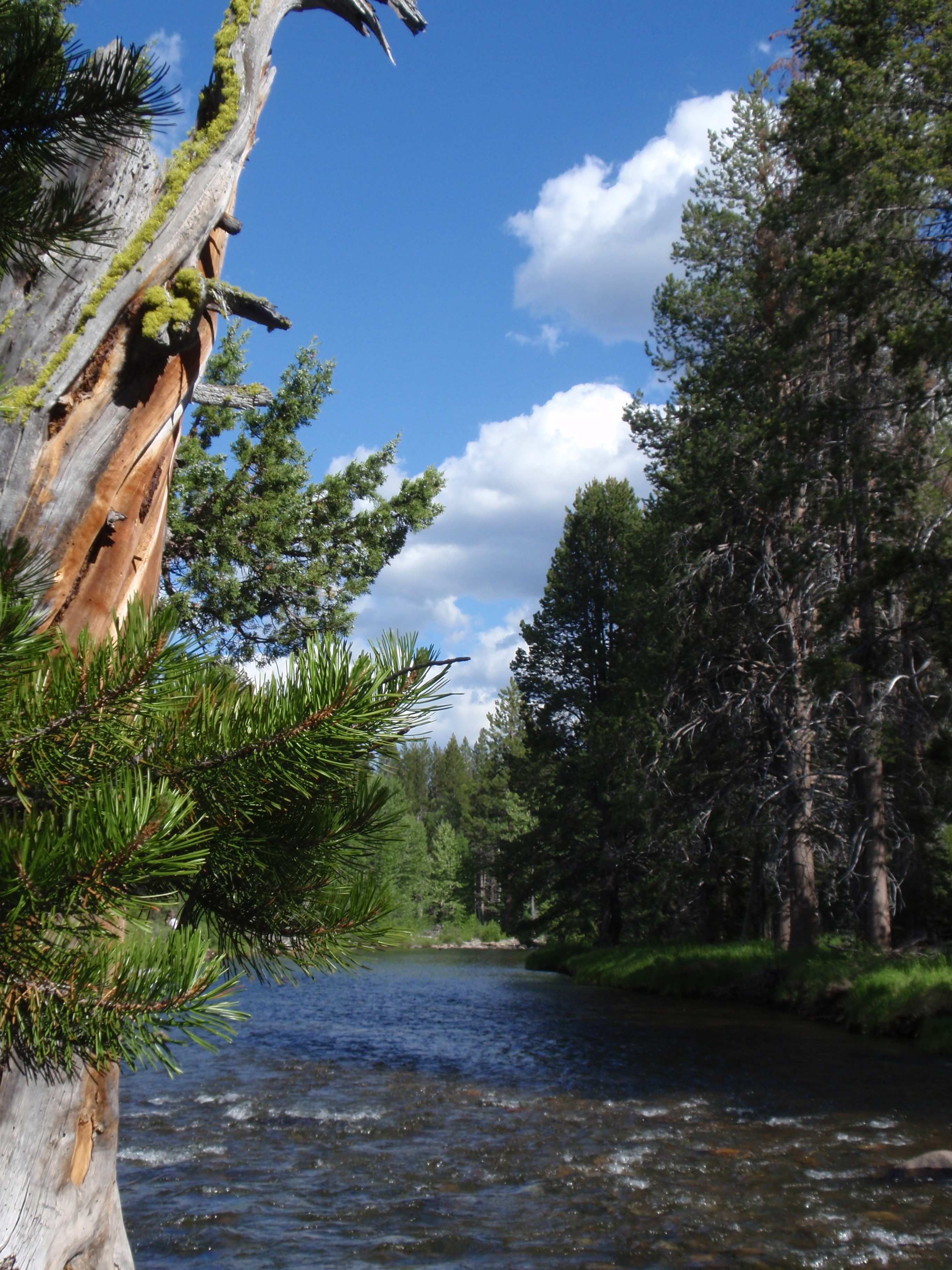 Upper Little Truckee River, Tahoe Nat'l Forest, Sierra Co., California, USA